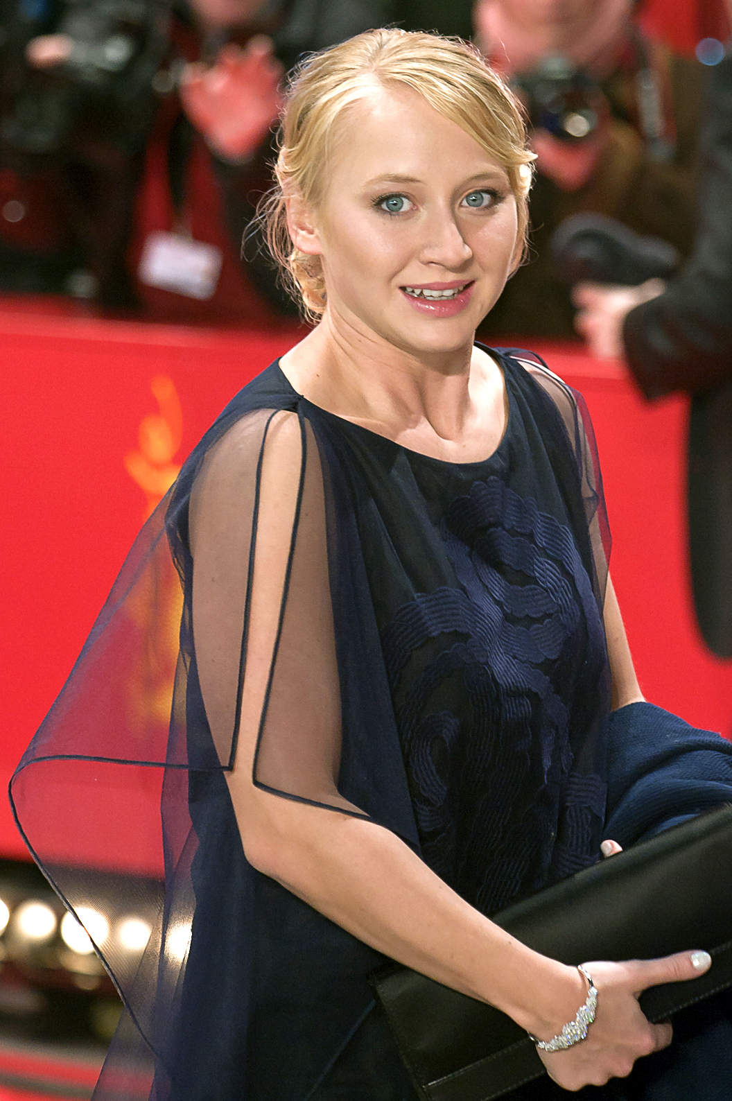 German actress Anna Maria Mühe arriving at the premiere of True Grit during the Berlin Film Festival 2011